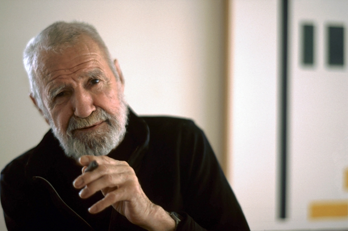 Ernst Scheidegger photographer fimmaker editor by Monica Boirar aka Monica Beurer